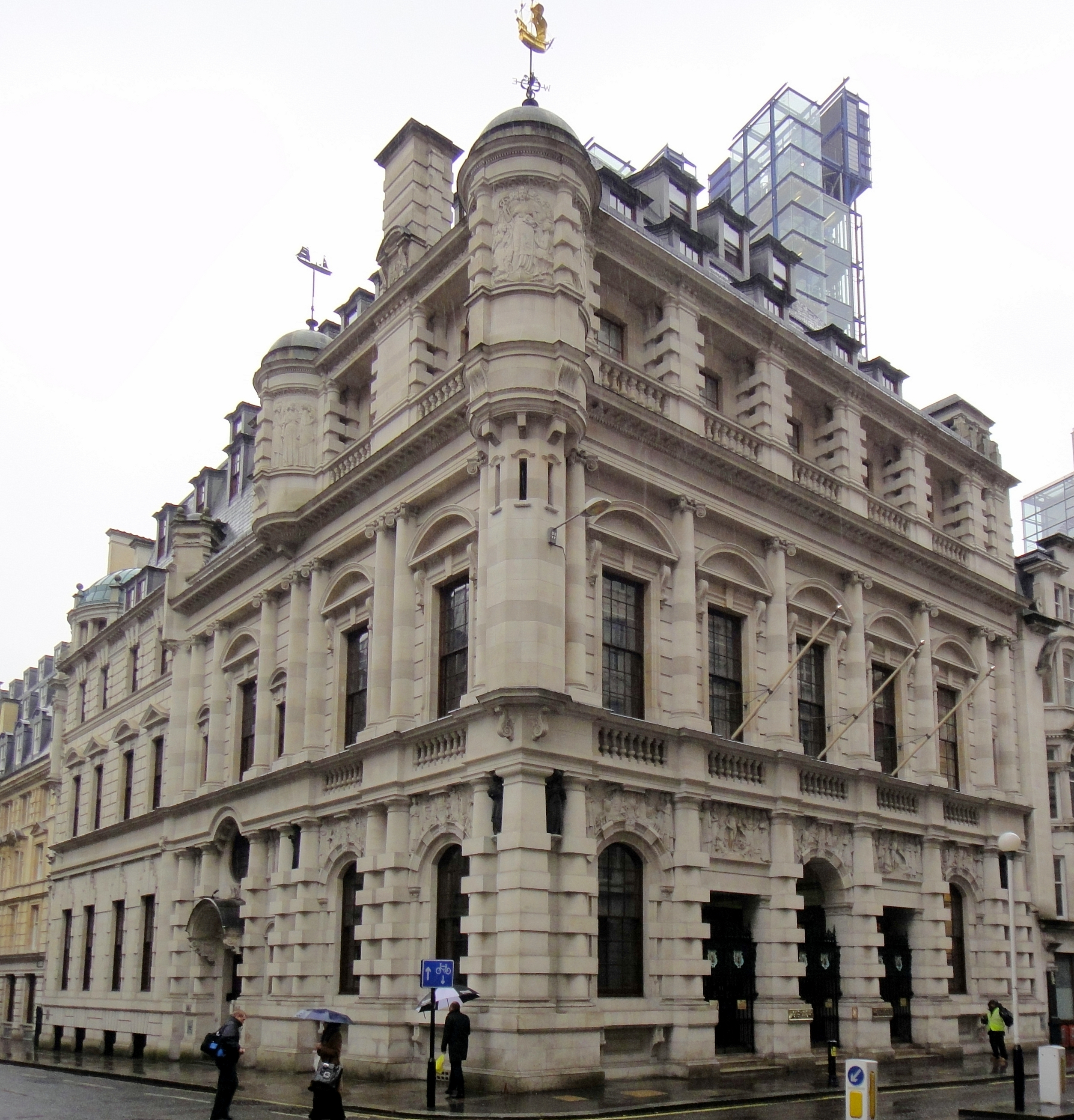 Lloyd's Register of Shipping